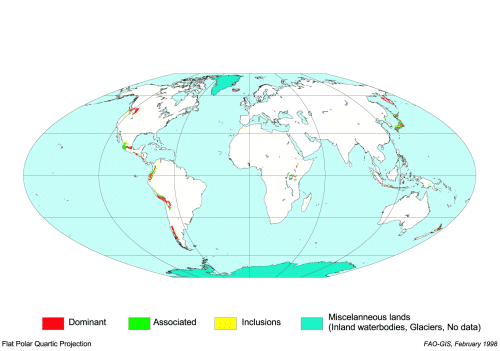 distribution of Andosols